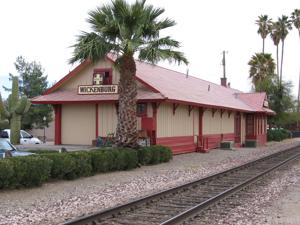 Former Santa Fe station in Wickenburg, Arizona. Built in 1895 by Santa Fe, Prescott & Phoenix Railway. Now used as a museum and city offices. Uploaded on June 30, 2006 by kla4067